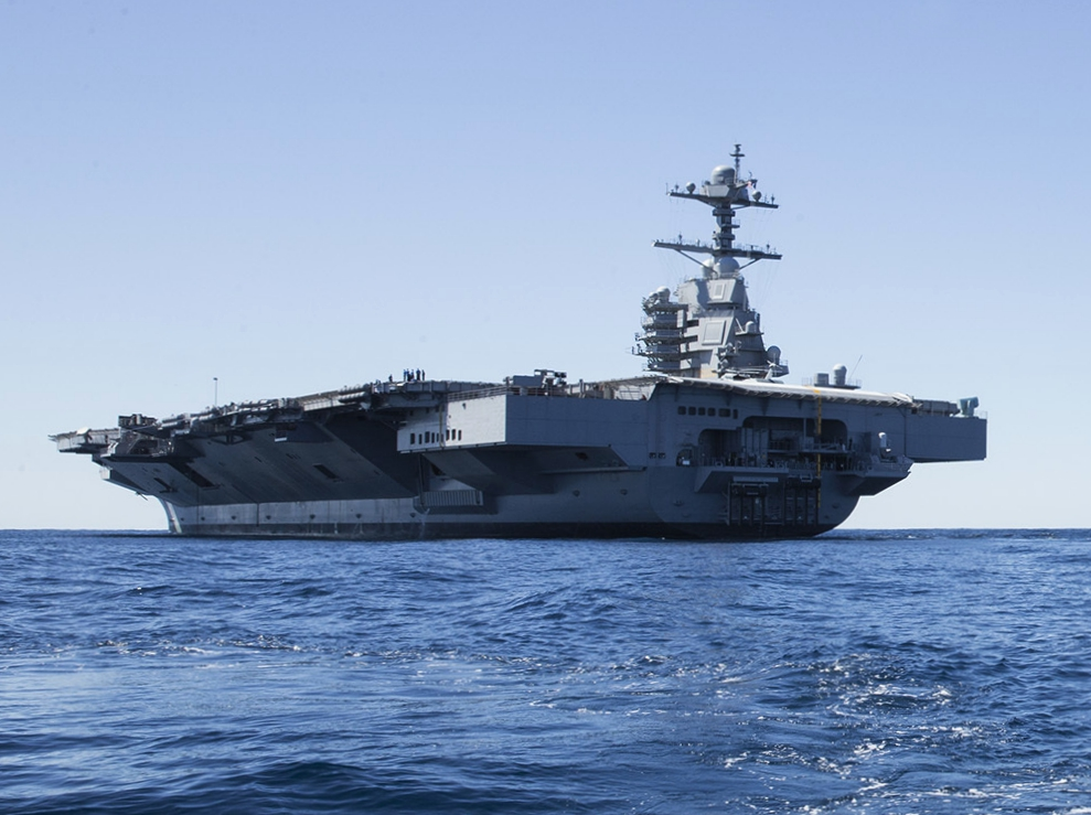 The U.S. Navy aircraft carrier USS Gerald R. Ford (CVN-78) underway on its own power for the first time. The first-of-class ship -- the first new U.S. aircraft carrier design in 40 years -- spent several days conducting builder's sea trials, a comprehensive test of many of the ship's key systems and technologies.